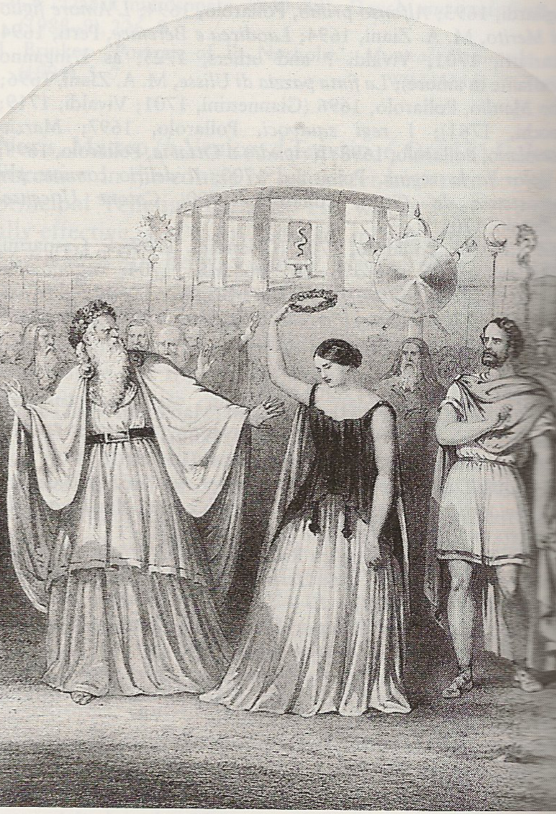 Norma-Act 2 finale-Lablache, Grsi, Conti-London 1843